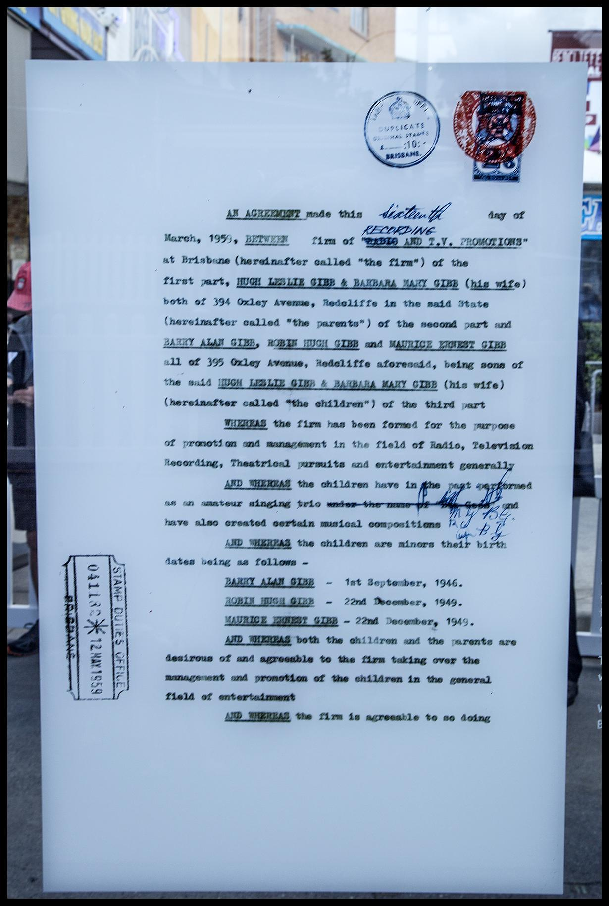 Copy of Bee Gees first Agreement 1958